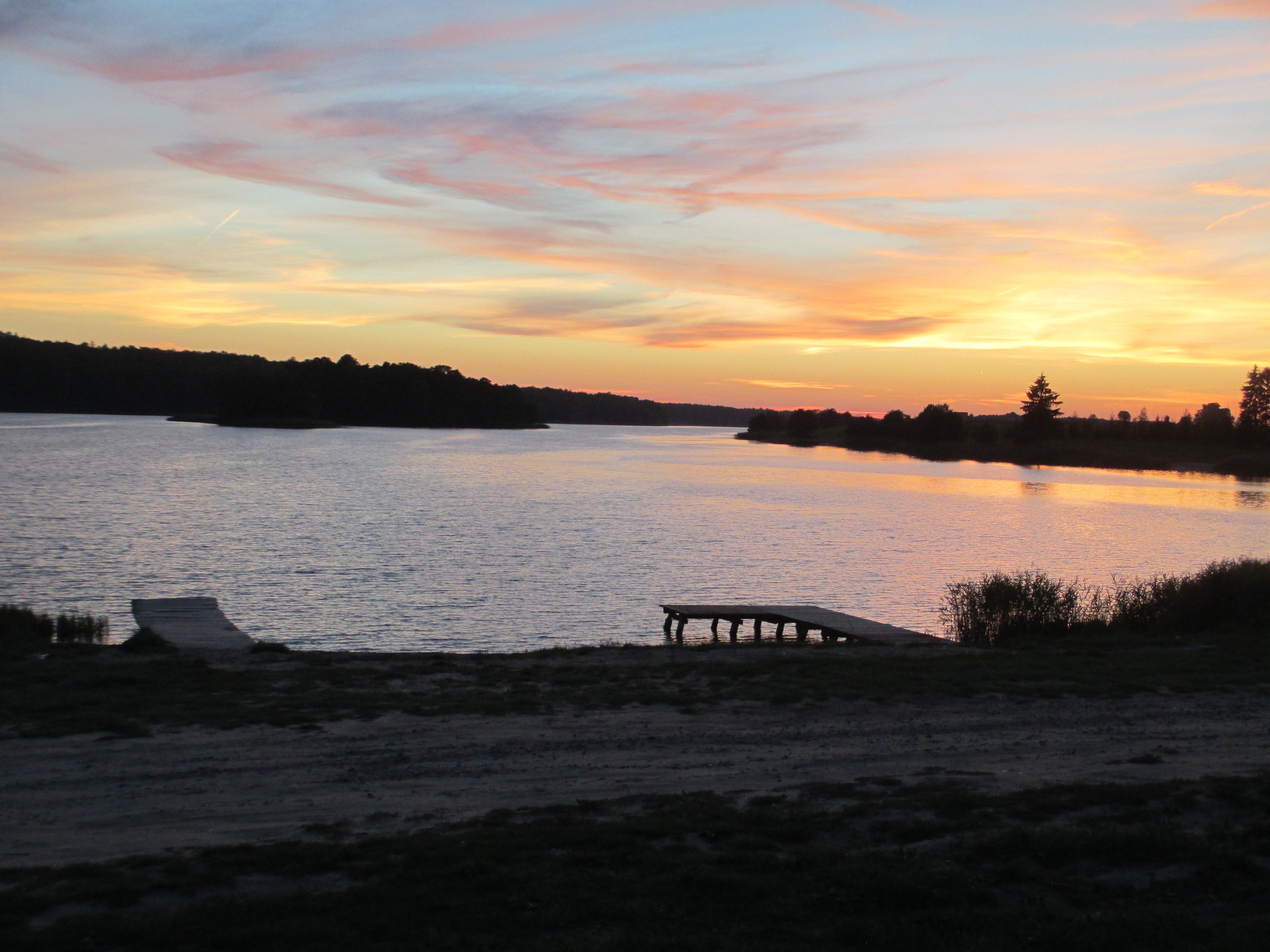 Jezioro Sunowo 2015